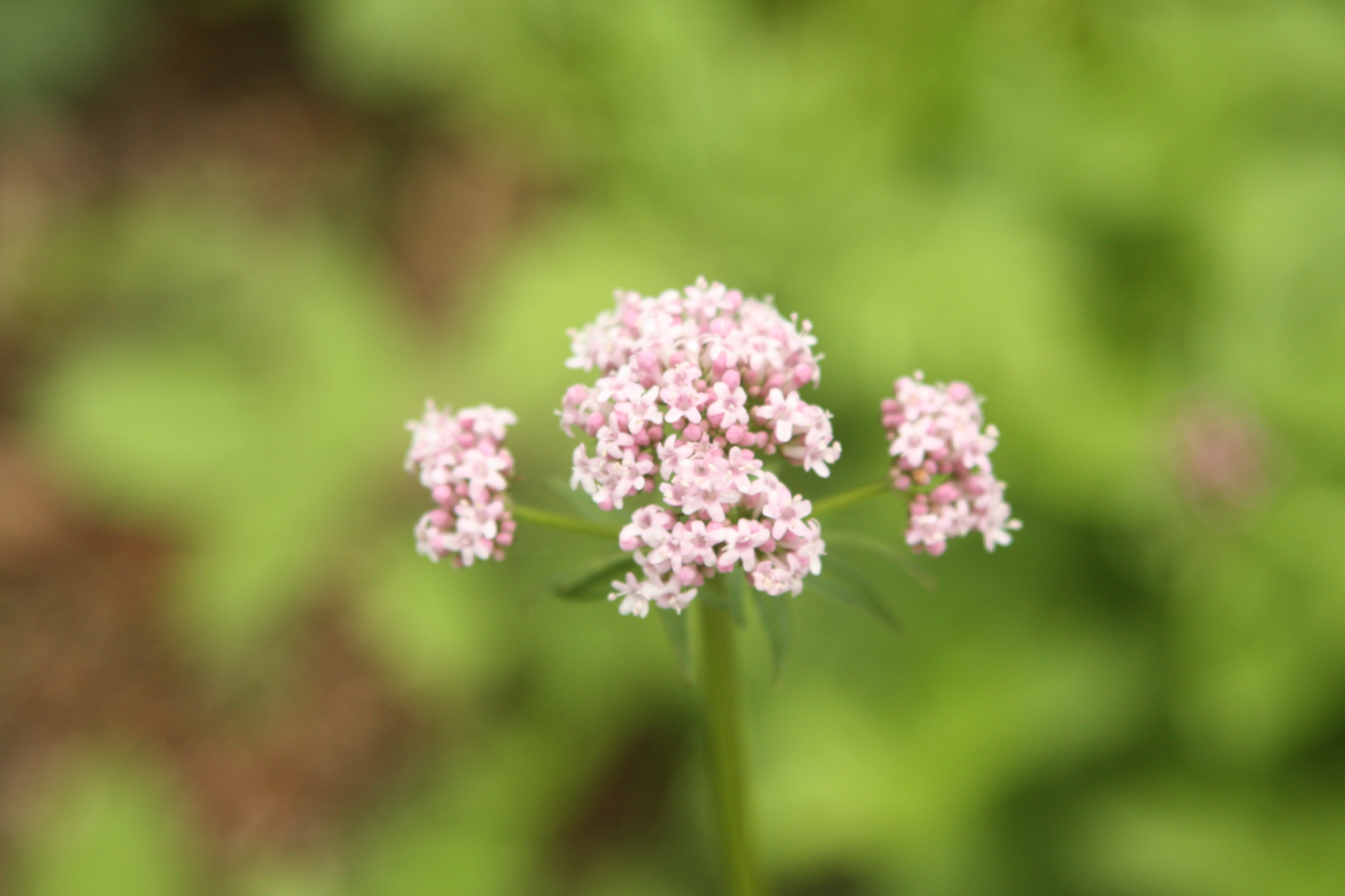 Valeriana fauriei